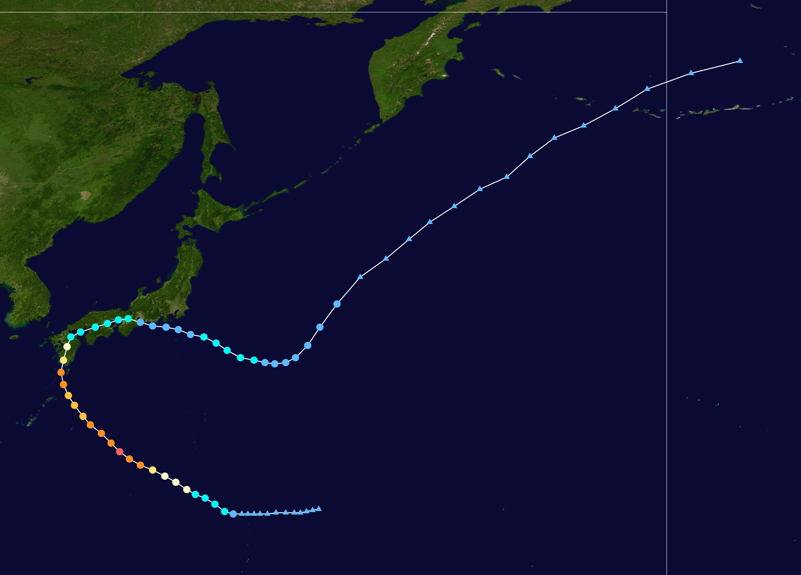 Typhoon Eve 1996 track. Uses the color scheme from the Saffir-Simpson Hurricane Scale.